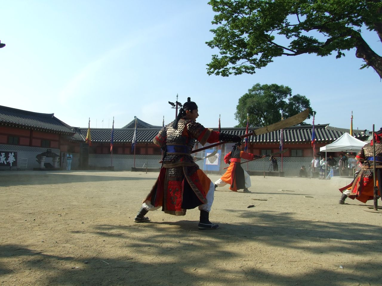 Muye24gi practitioner with woldo